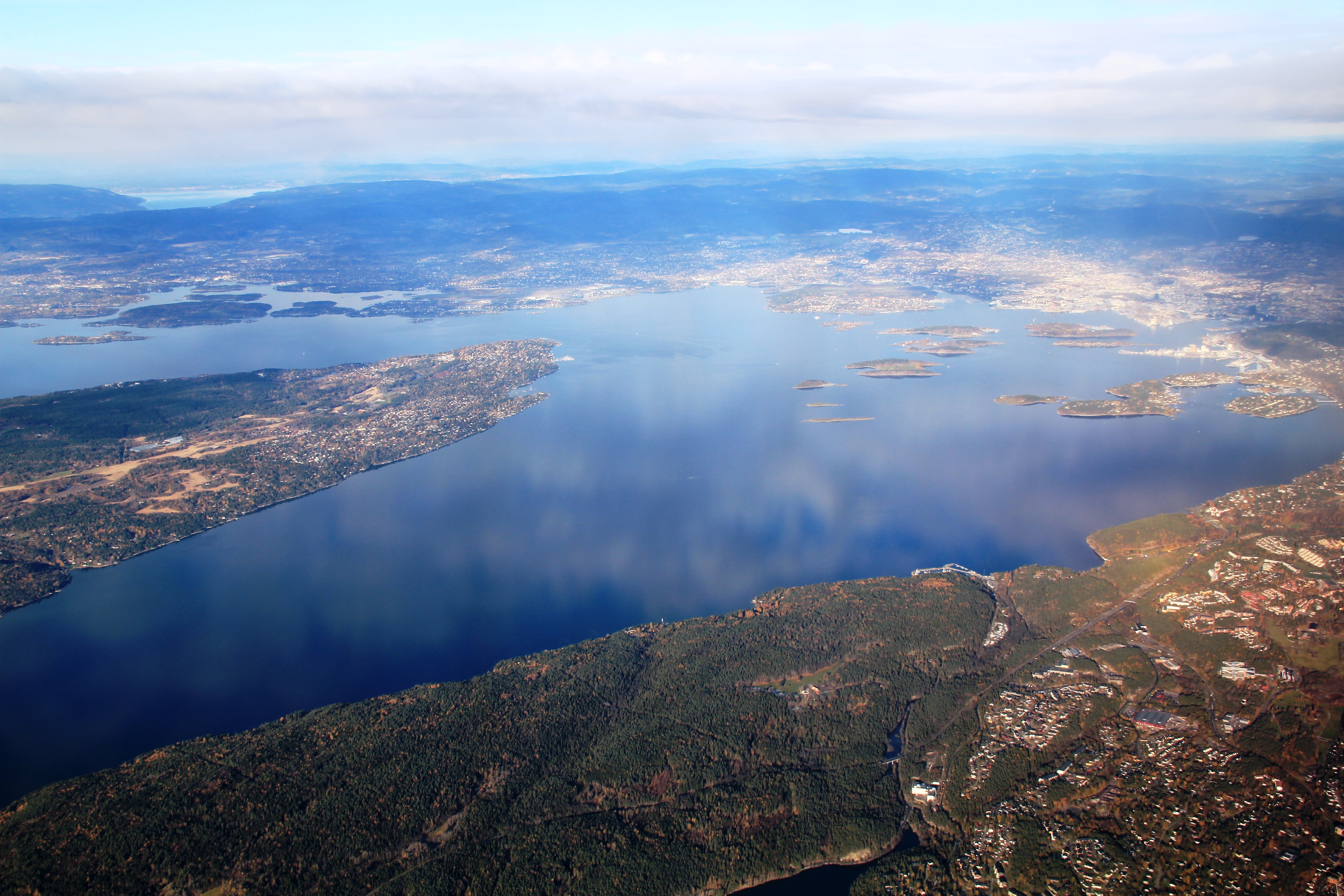 Aerial view of the inner Oslofjord and Oslo, with Nesodden to the left.